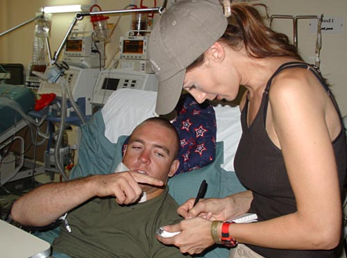 Country singer Chely Wright signs an autograph for Joe Dan Worley a wounded Marine in Iraq, while visiting the International Zone during her Stars for Stripes music tour to Southwest Asia, Sept. 13 to 22. Photo courtesy of Stars for Stripes